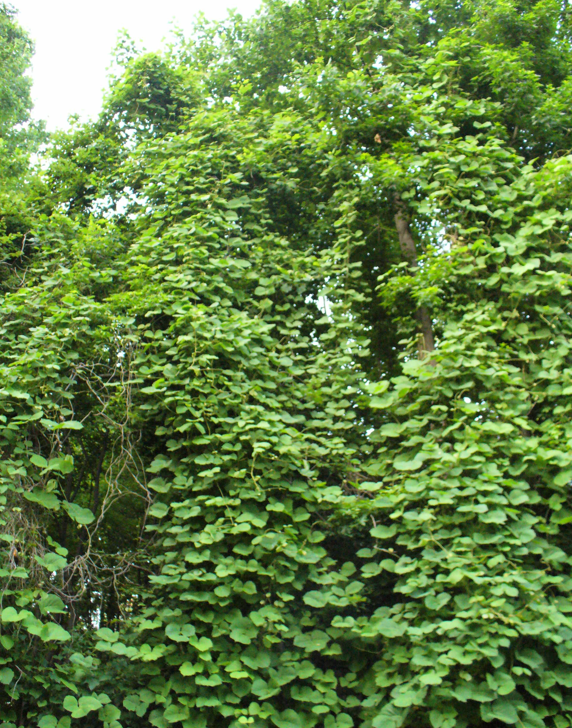 The East Coast is even greener than Minnesota. You don't just have trees--all the trees are covered in vines! Why don't we have vines?